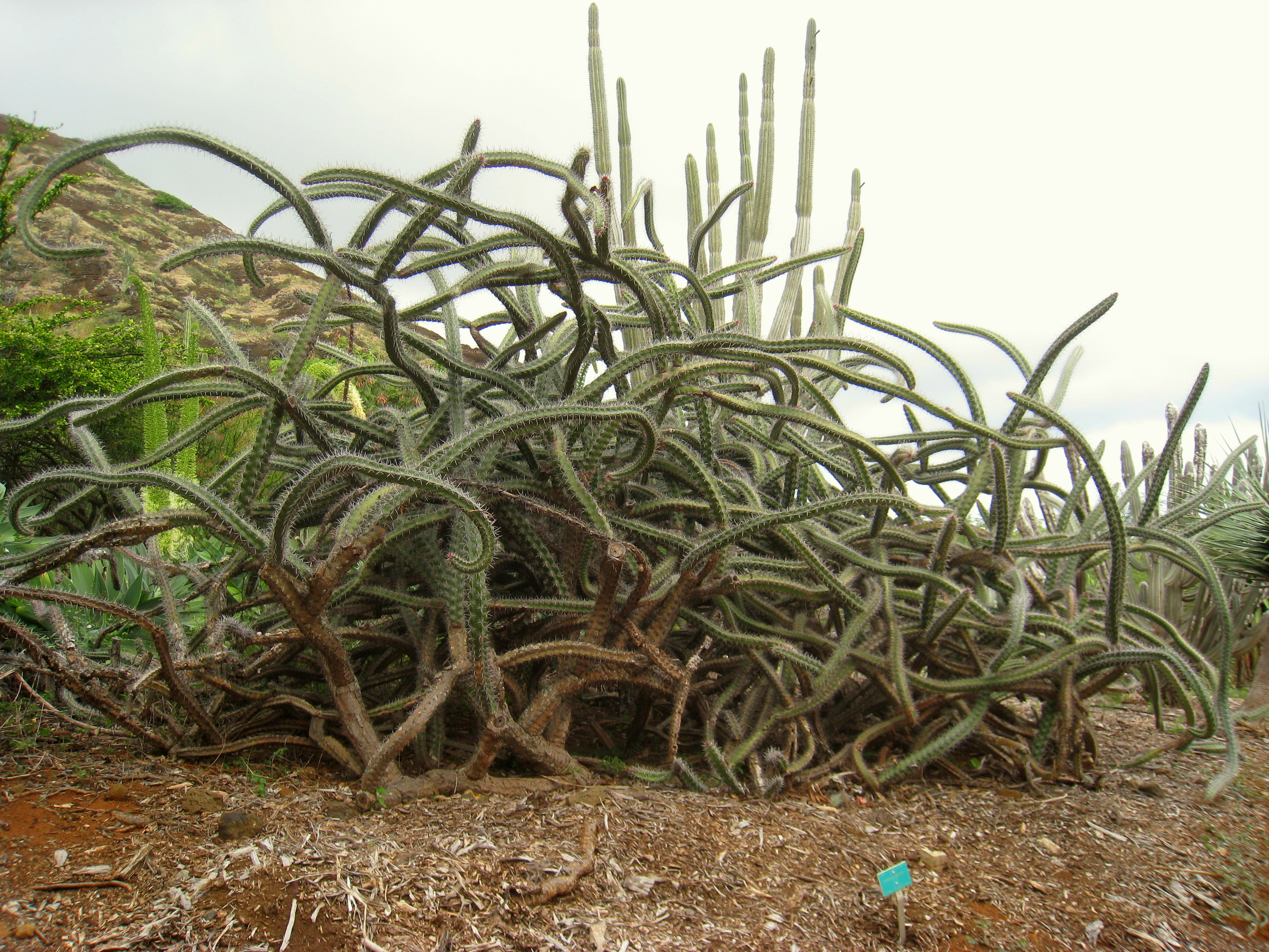 Rathbunia alamosensis in the Koko Crater Botanical Garden, Honolulu, Hawaii, USA.